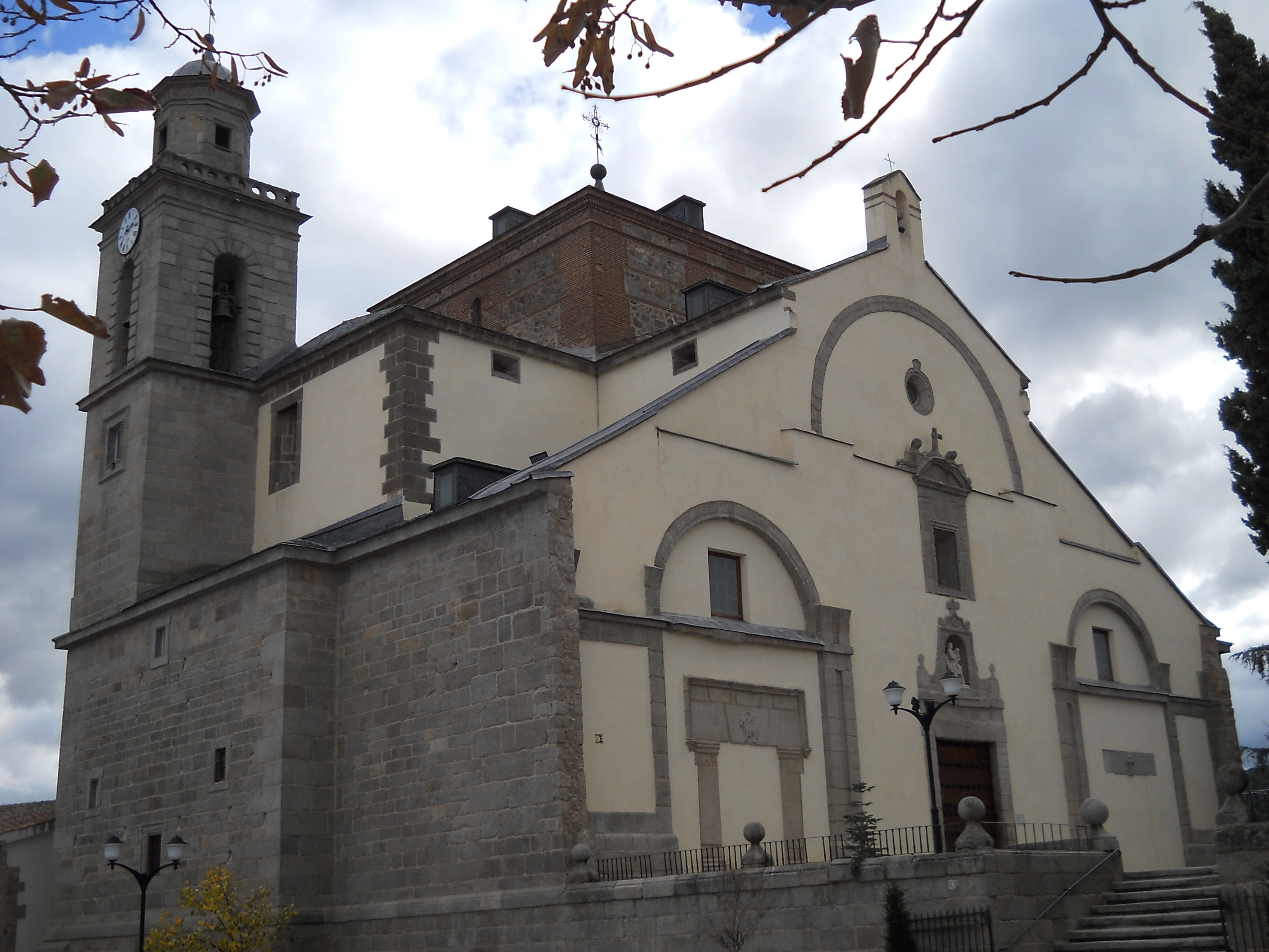 Church of St. Martin Bishop, San Martín de Valdeiglesias, Madrid, Spain